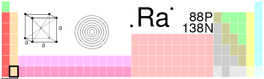 Image by Daniel Mayer or GreatPatton and released under terms of the GNU FDL